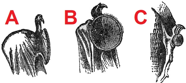 Suctorial Disks in Thyroptera tricolor, Chiroptera from 1911 Encyclopædia Britannica